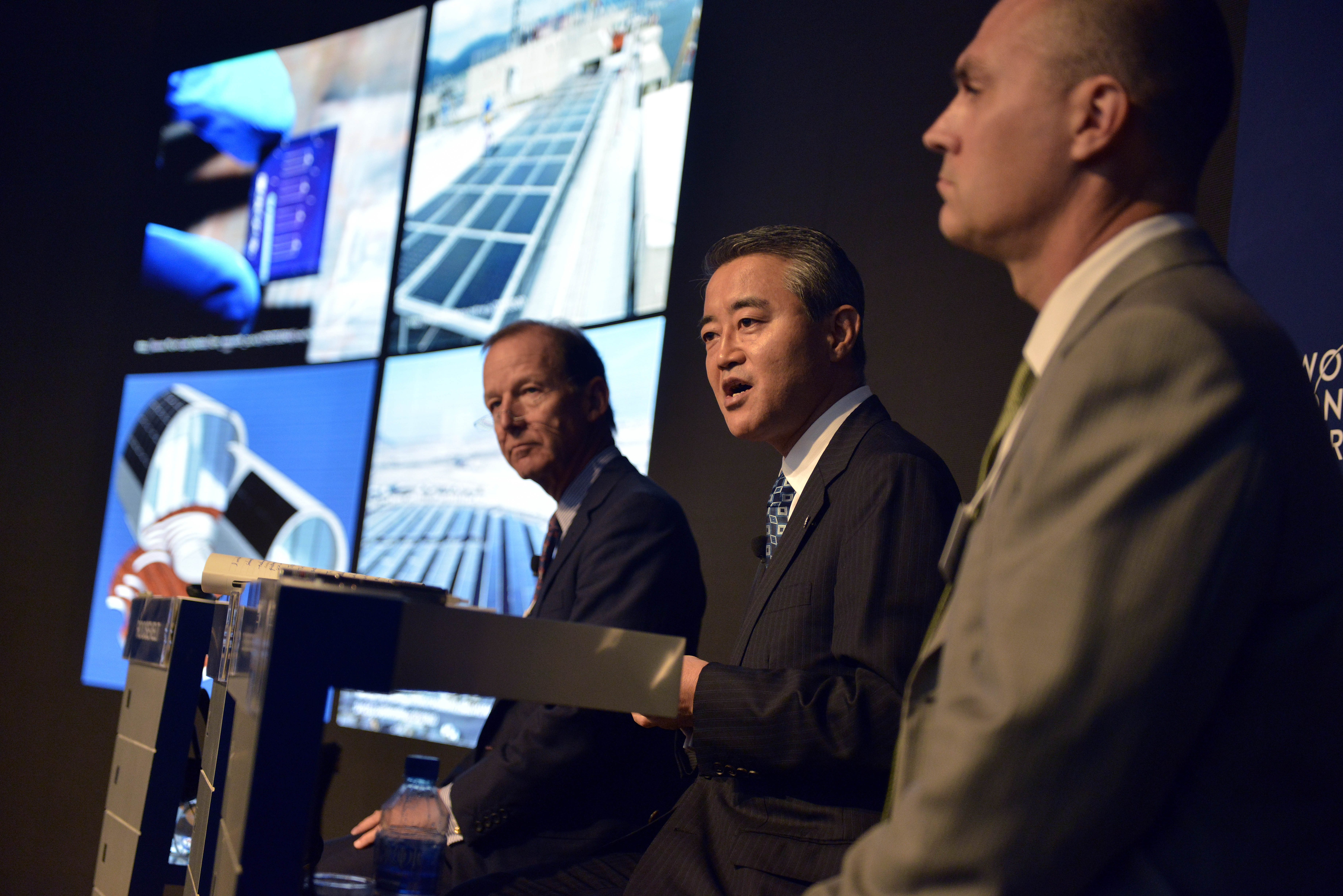 (l to r) Theodore Roosevelt IV, Managing Director and Chairman, Cleantech Initiative, Barclays, USA, Jun Arai, President and Representative Director, Showa Shell Sekiyu, Japan and Roger M. Hine, Founder and Chief Technology Officer, Liquid Robotics, USA; Technology Pioneer at the Annual Meeting of the New Champions in Tianjin, China 2012